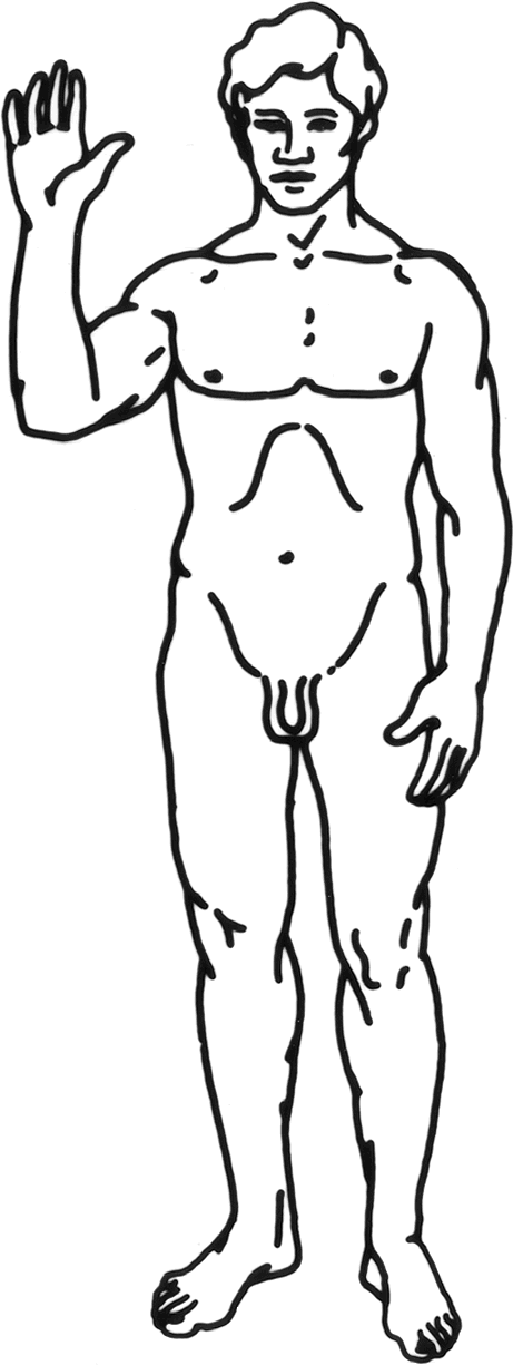 The svg version isn't an exact replication enough for me, especially the face.